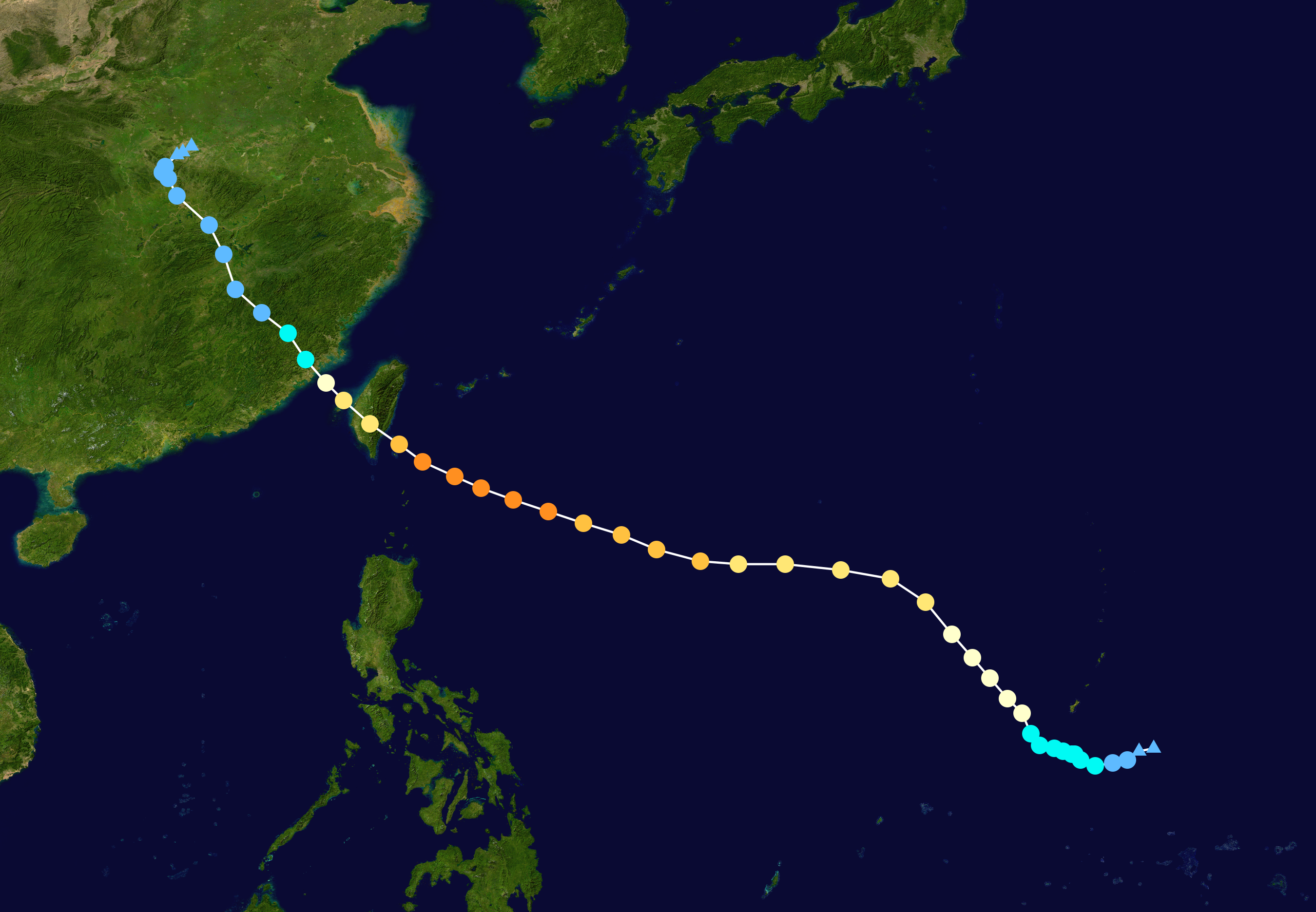 Typhoon Andy 1982 track. Uses the color scheme from the Saffir-Simpson Hurricane Scale.